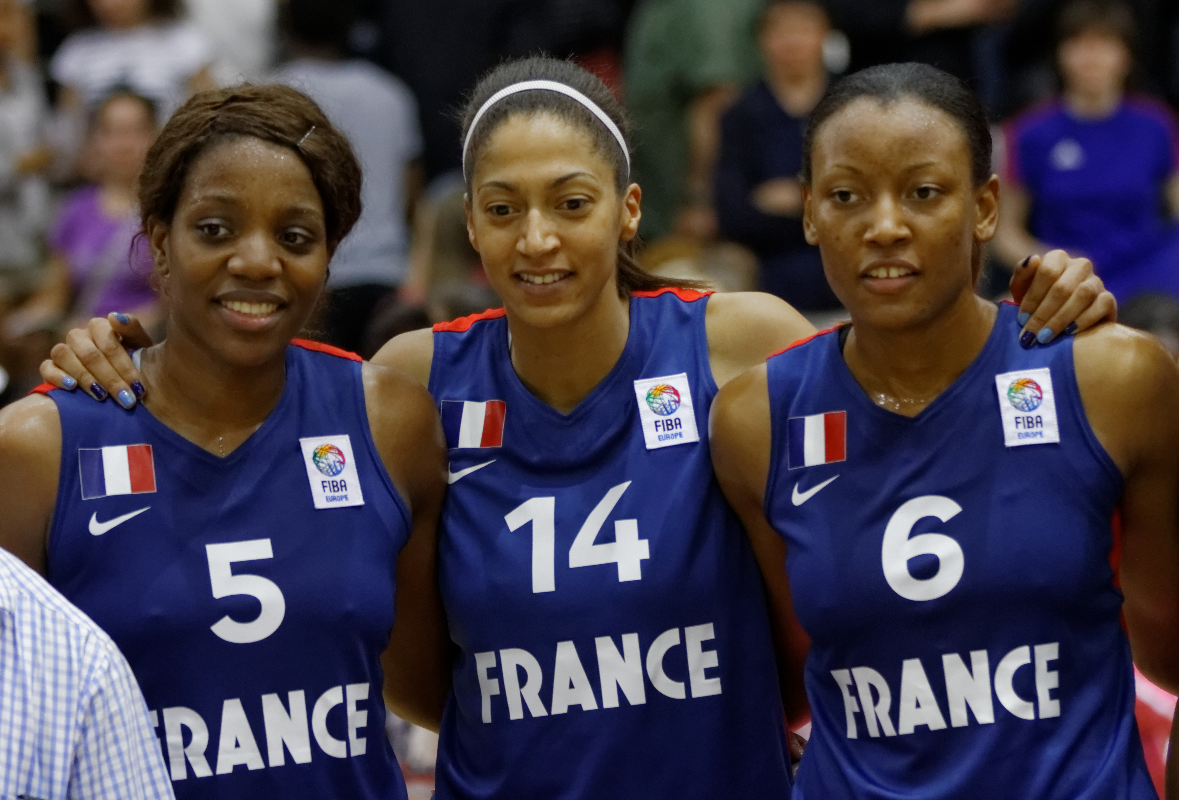 EuroEssonne, France - Canada, 7 June 2013.